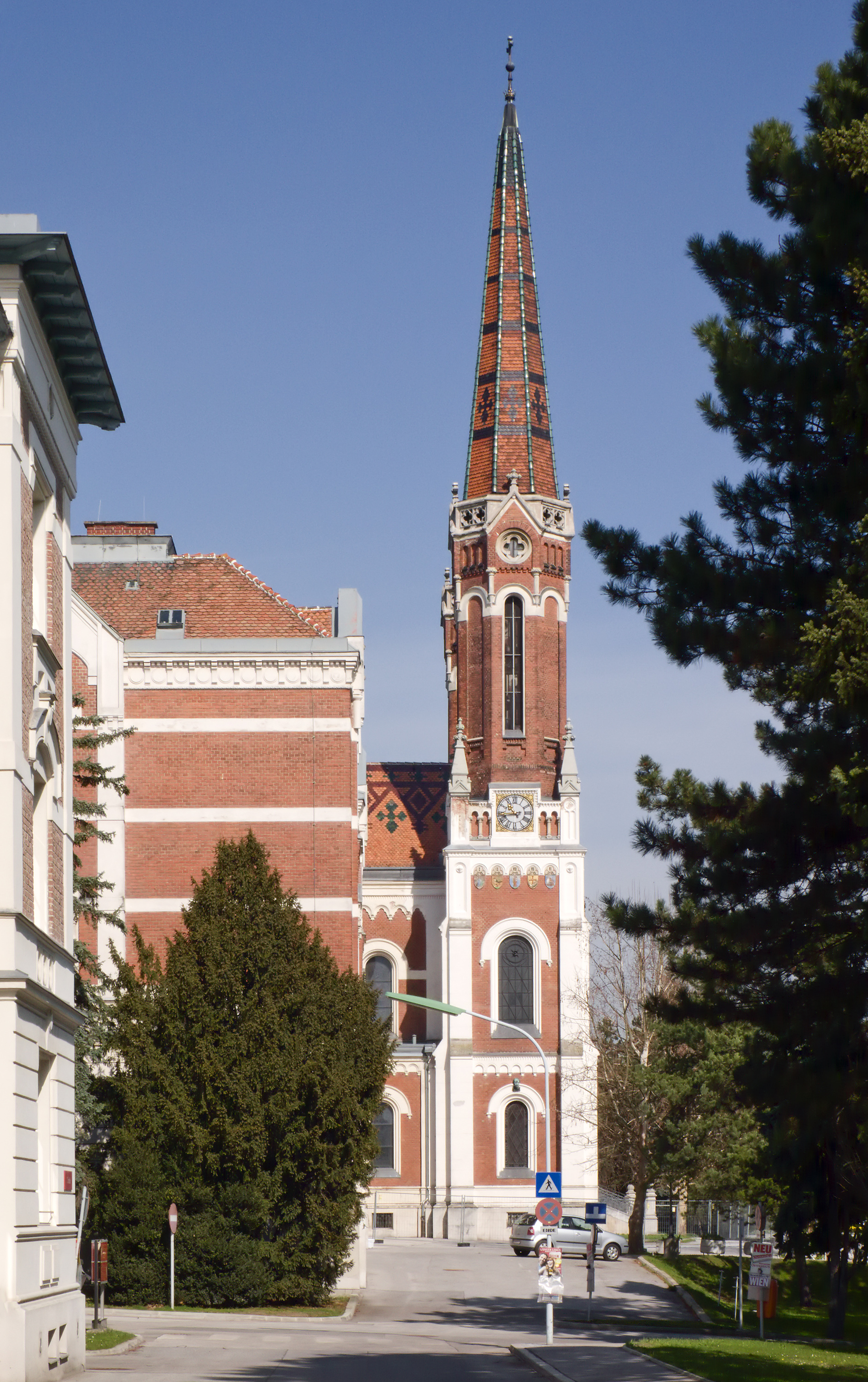 Versorgungsheimkirche in Vienna Hietzing